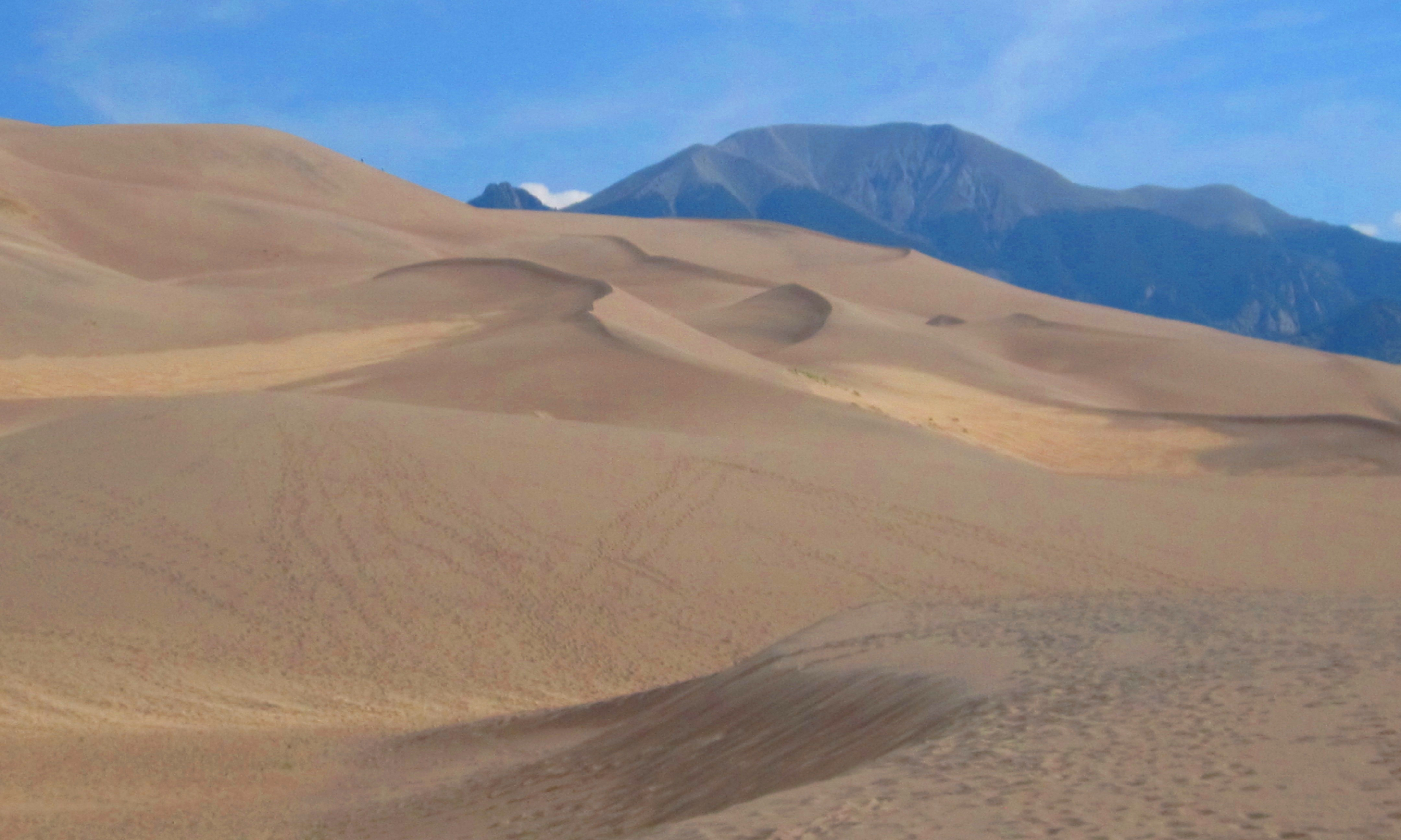 Great Sand Dunes